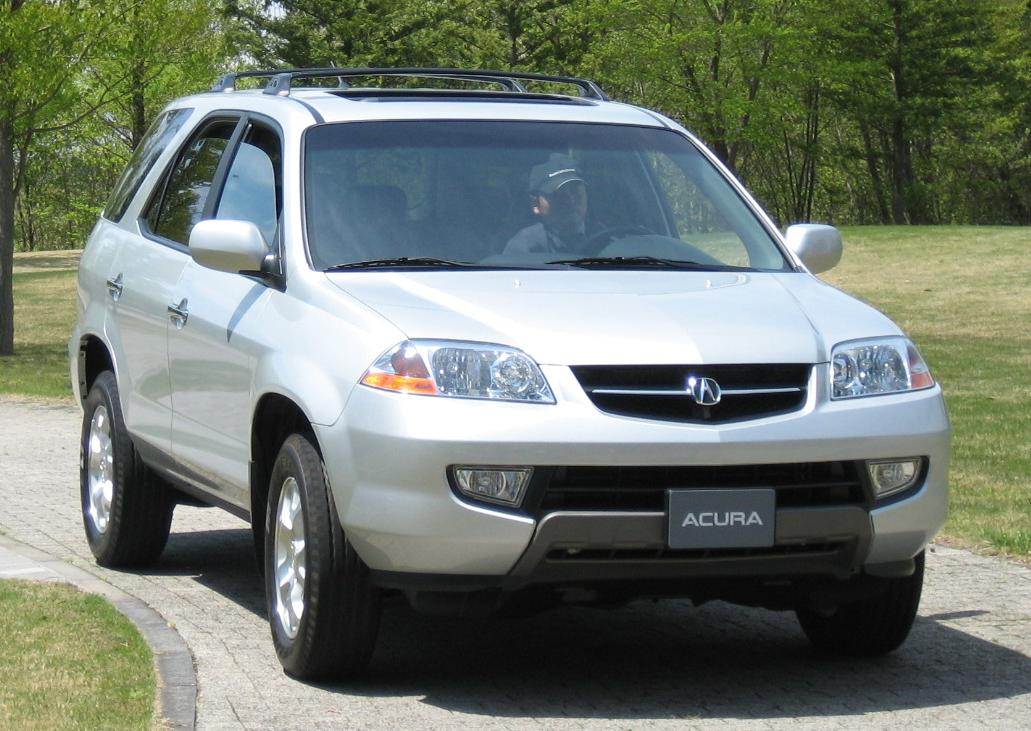 Honda MDX in Honda Collection Hall